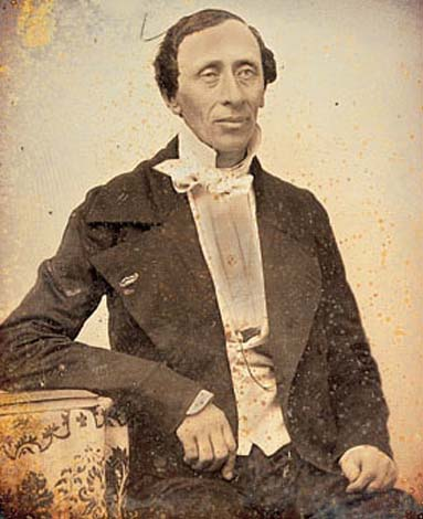 First photograph (dagerreotype) of H.C. Andersen taken by Frederik Ferdinand Petersen. The file is from H.C. Andersen - Dagbøger - at Det Kongelige Bibliotek, Copenhagen